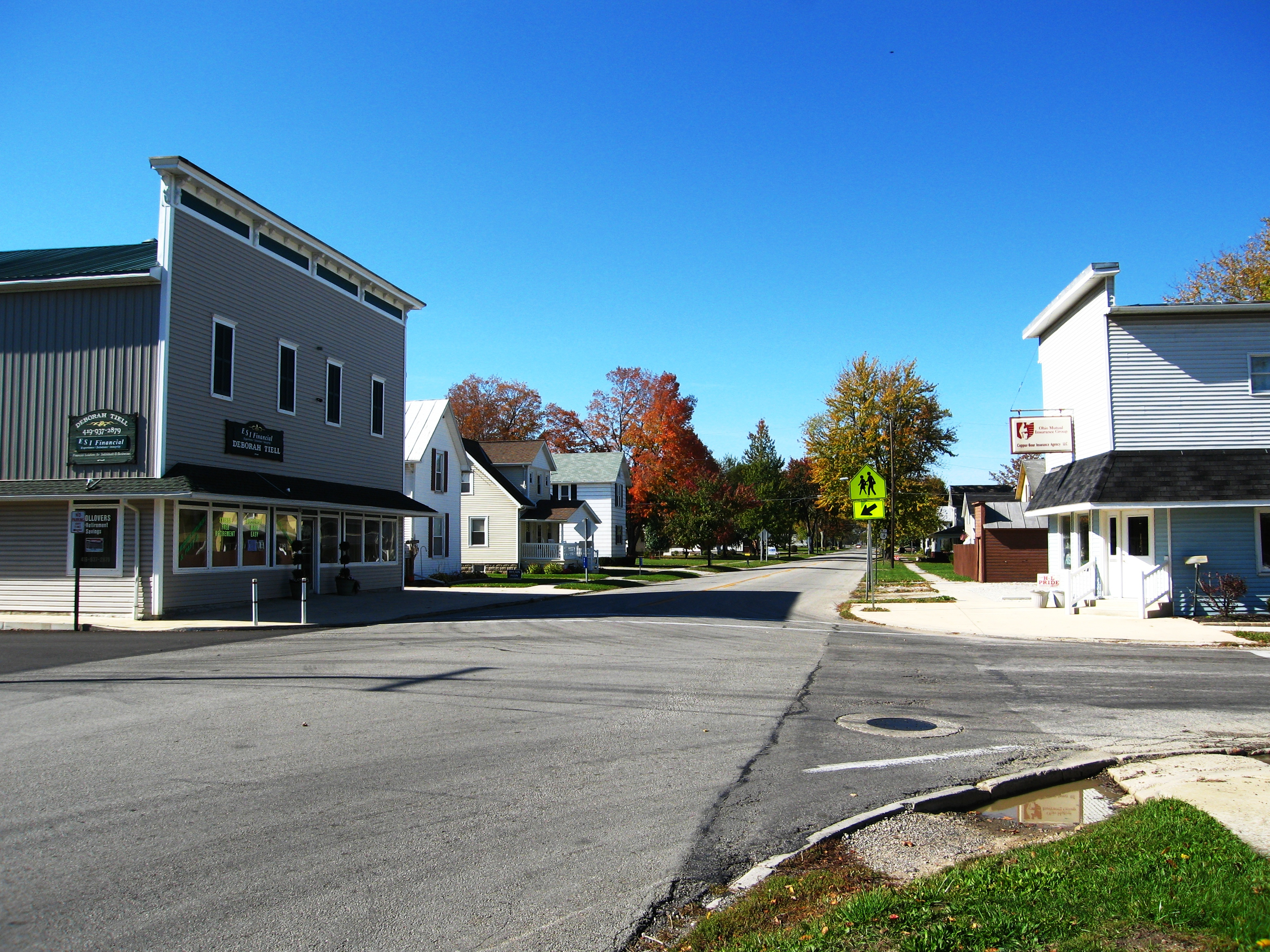 Photograph of the unincorporated community of Bascom, Ohioen, taken at ground level from the intersection of Tiffin Street and Ohio State Route 635, looking West on Ohio State Route 18.